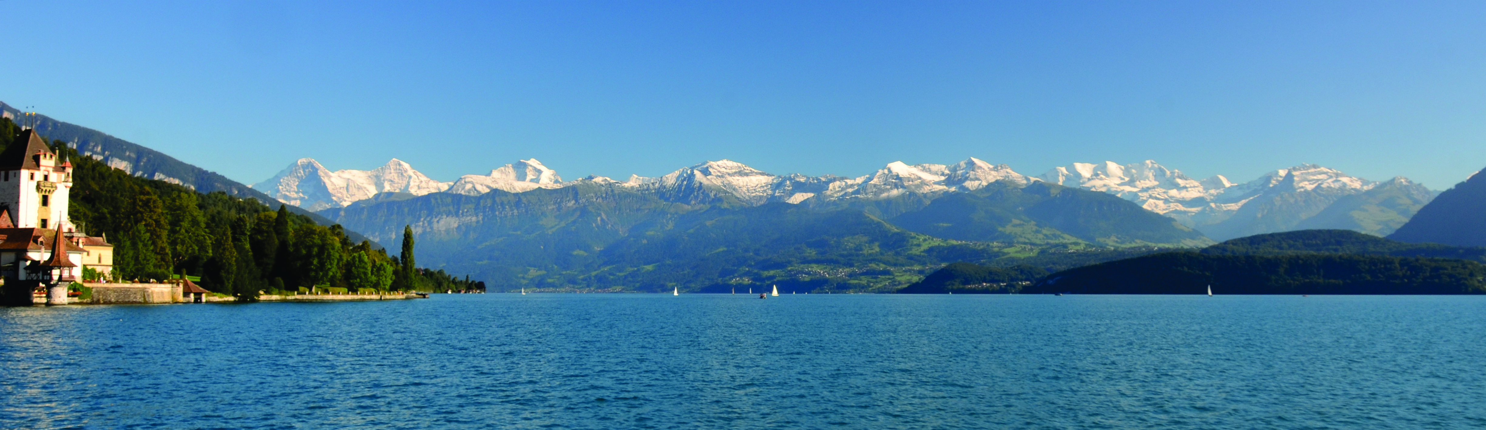 Berner Oberland Thunersee - Lake of Thun